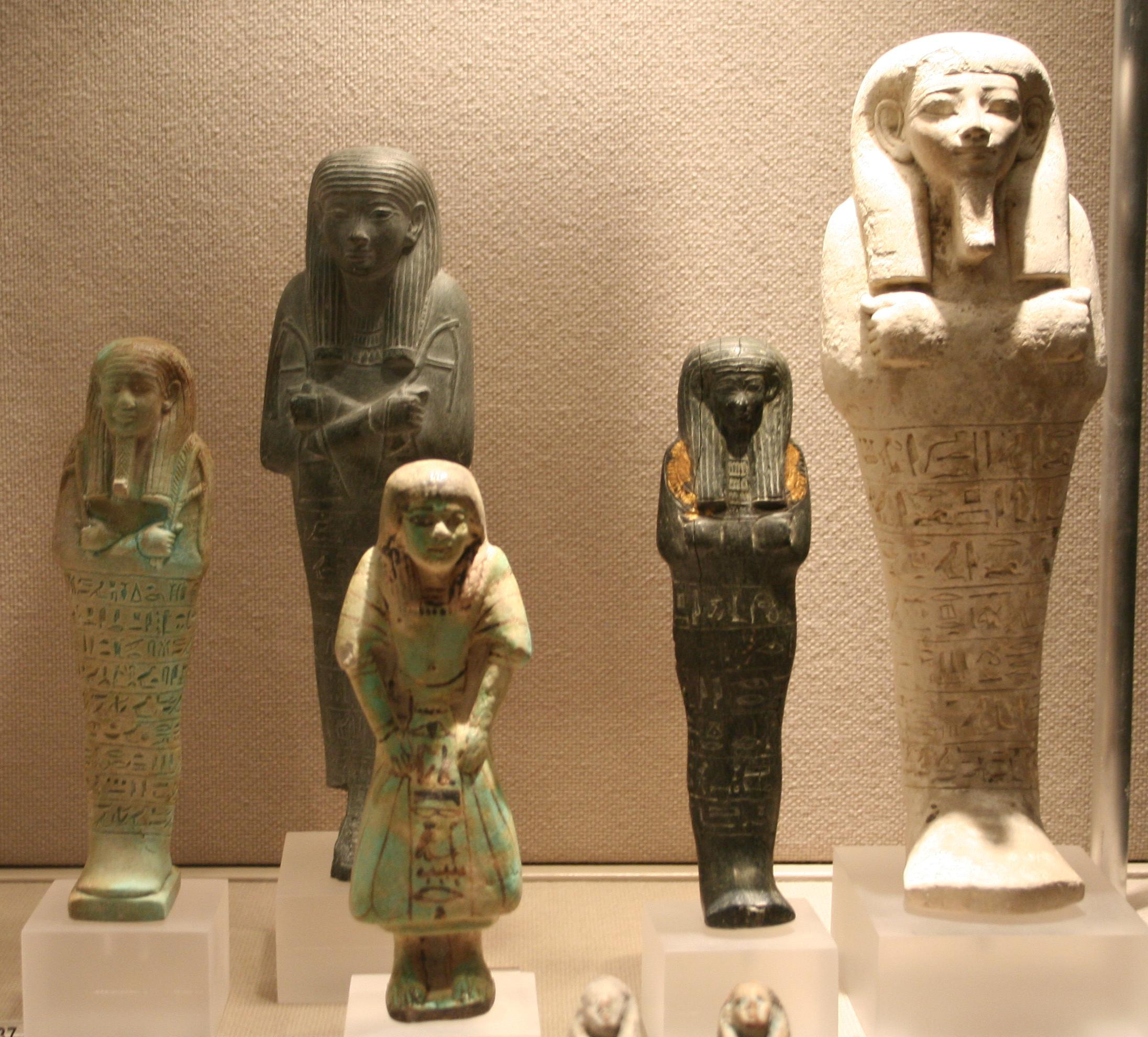 Ushabti